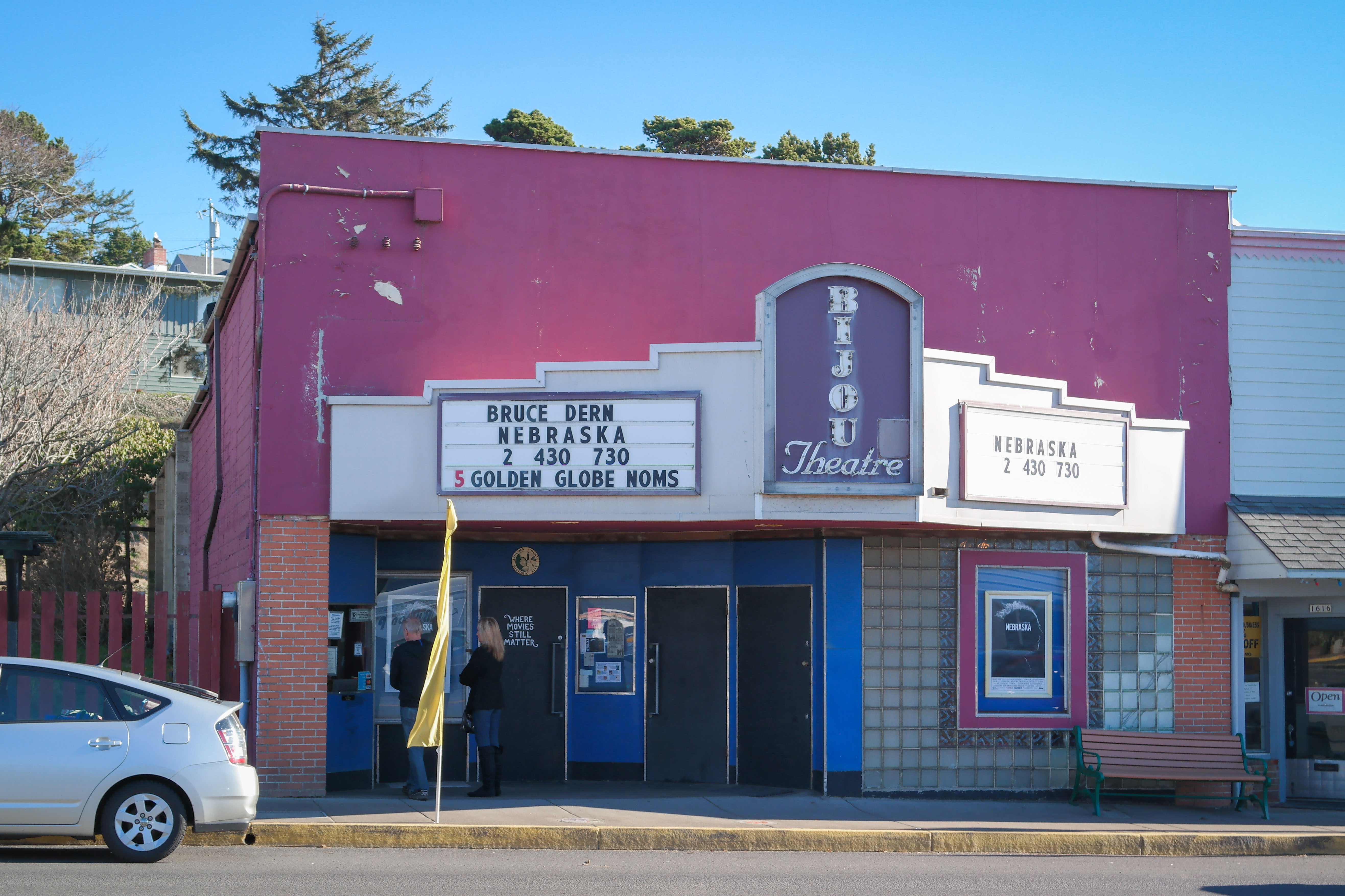 The Bijou Theatre in Lincoln City, Oregon